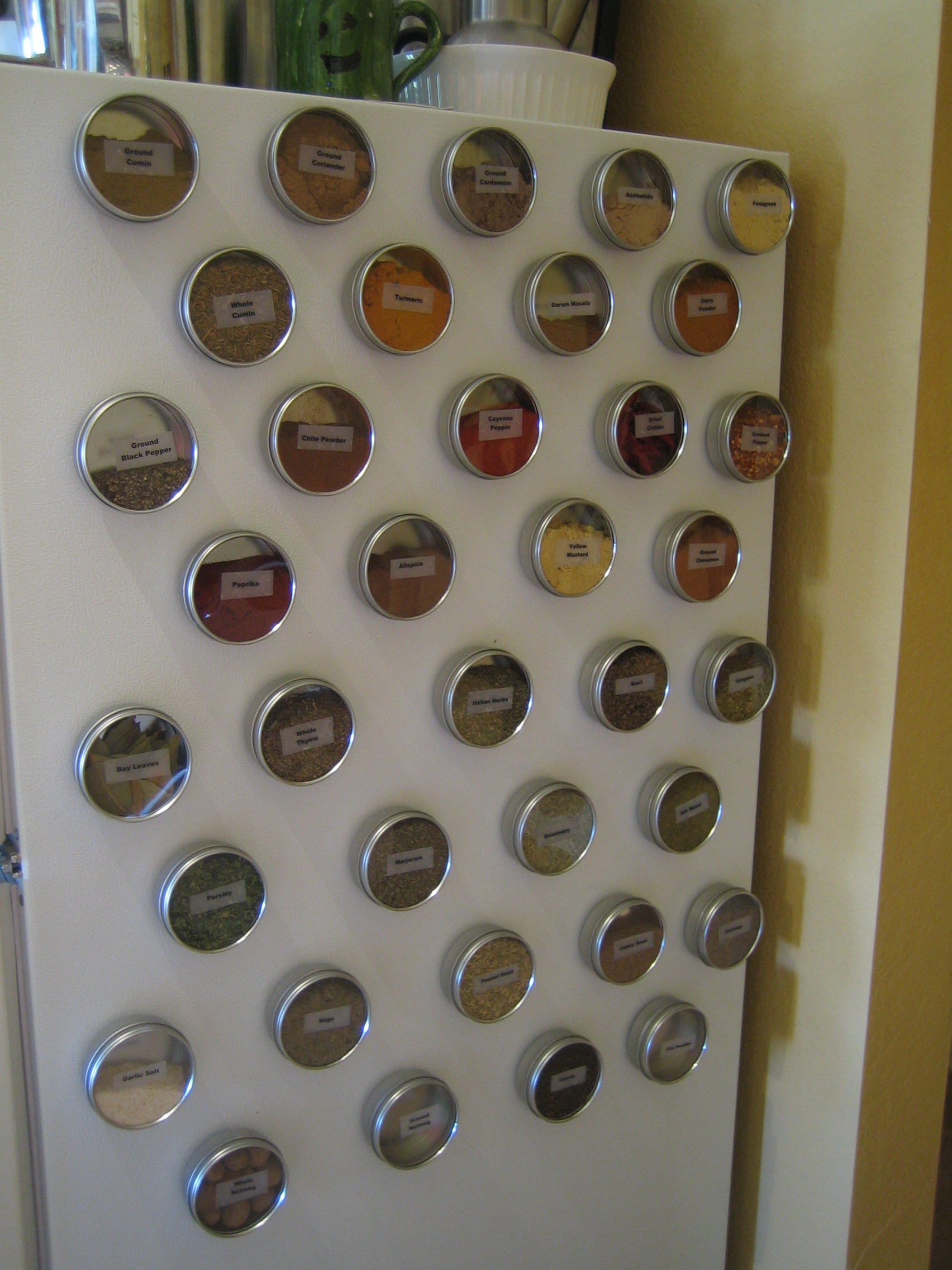 Spice rack This is our refrigerator. The spices are kept in tins. The tins have magnets glued onto the back.